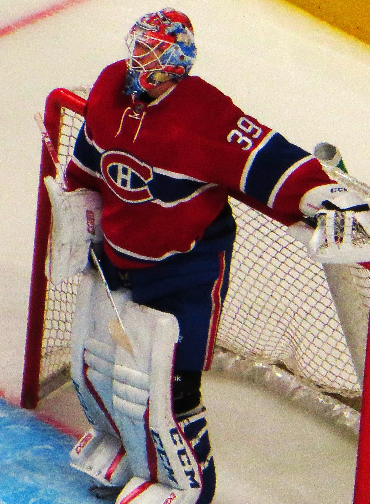 Michael "Mike" Johnston Condon (born April 27, 1990) is an American professional ice hockey goaltender for the Ottawa Senators of the National Hockey League (NHL). On May 8, 2013, Condon signed his first professional contract with the Montreal Canadiens. On October 11, 2015, Condon started his first NHL game, leading the Canadiens to a 3–1 win against the Ottawa Senators. He stopped 20 of 21 shots, only allowing one goal against from Senators forward Jean-Gabriel Pageau. Senators goaltender Matt O'Connor made his NHL debut in the same game, making the two the first goaltenders to make their first NHL start on the same night since October 14, 1967. On November 9, Condon was named the NHL third star of the week for his play filling in for the injured Carey Price. On October 11, 2016, Condon was claimed off waivers from the Montreal Canadiens by the Pittsburgh Penguins after being waived the previous day. He would only play one period (20 minutes) in relief for the Penguins before being traded to the Ottawa Senators on November 2 for a fifth-round draft pick in 2017. Condon was acquired due to Senators' starter Craig Anderson facing an uncertain future after his wife was recently diagnosed with cancer, and backup Andrew Hammond being sidelined with an injury. In June 2017, Condon signed a 3 year $7.2M contract extension with the Ottawa Senators after being credited with saving the Senator's season 2016-2017 season by filling in for starter Craig Anderson during which time Condon set team records both for the most consecutive starts by a goalie (27 games) and for the fewest number of games needed to achieve 5 shutouts (32 games). (ice_hockey)